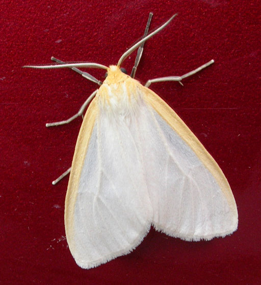 Delicate Cycnia, Cycnia tenera, adult (imago), Location: Durham, North Carolina, United States